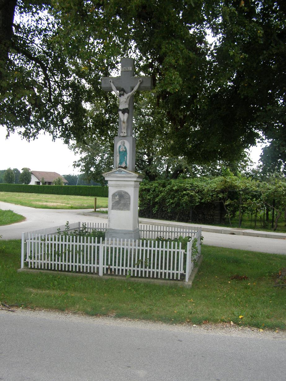 Cross in Noršinci, near Moravske Toplice with inscription 1) in prekmurian language (prekmurščina) (1)